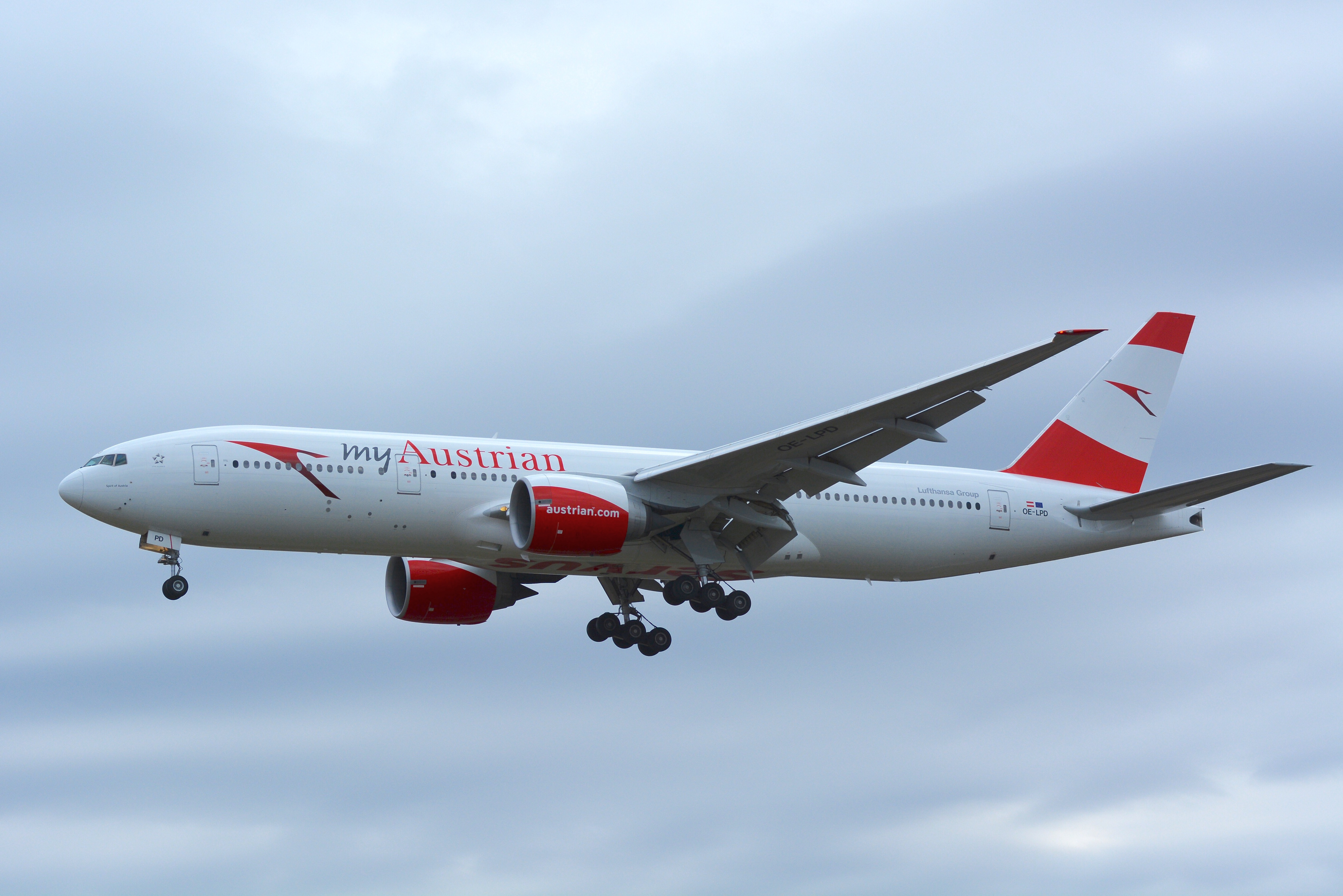 Austrian Airlines, Boeing 777-200 OE-LPD 'myAustrian' NRT